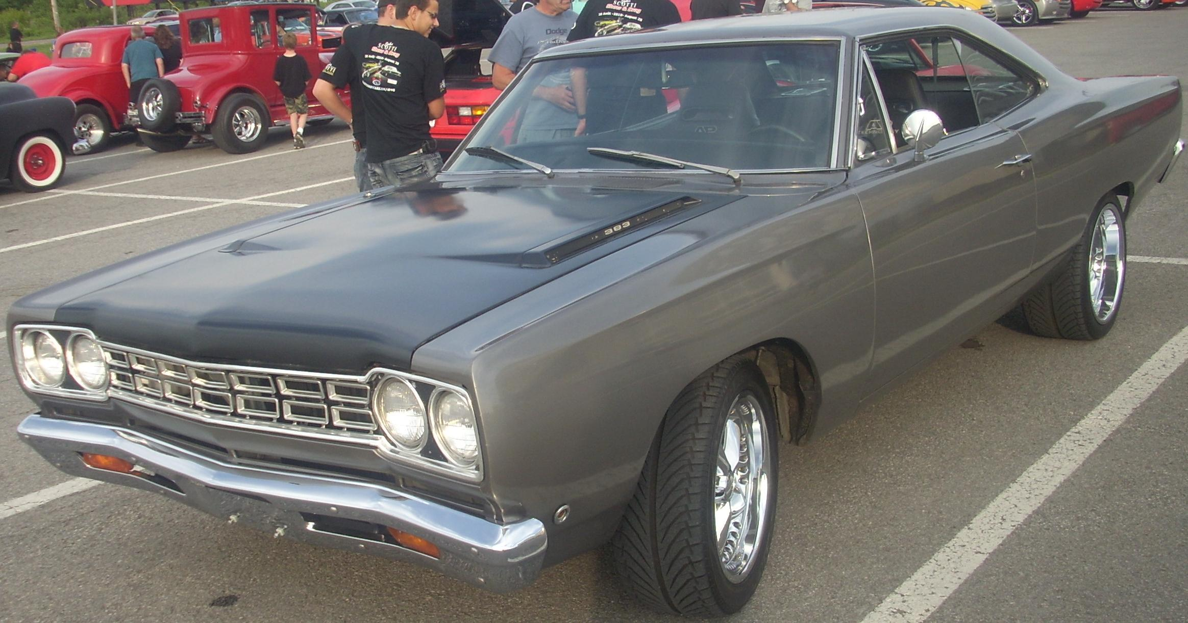 1968 Plymouth Road Runner photographed in Laval, Quebec, Canada at Les chauds vendredis 2010.